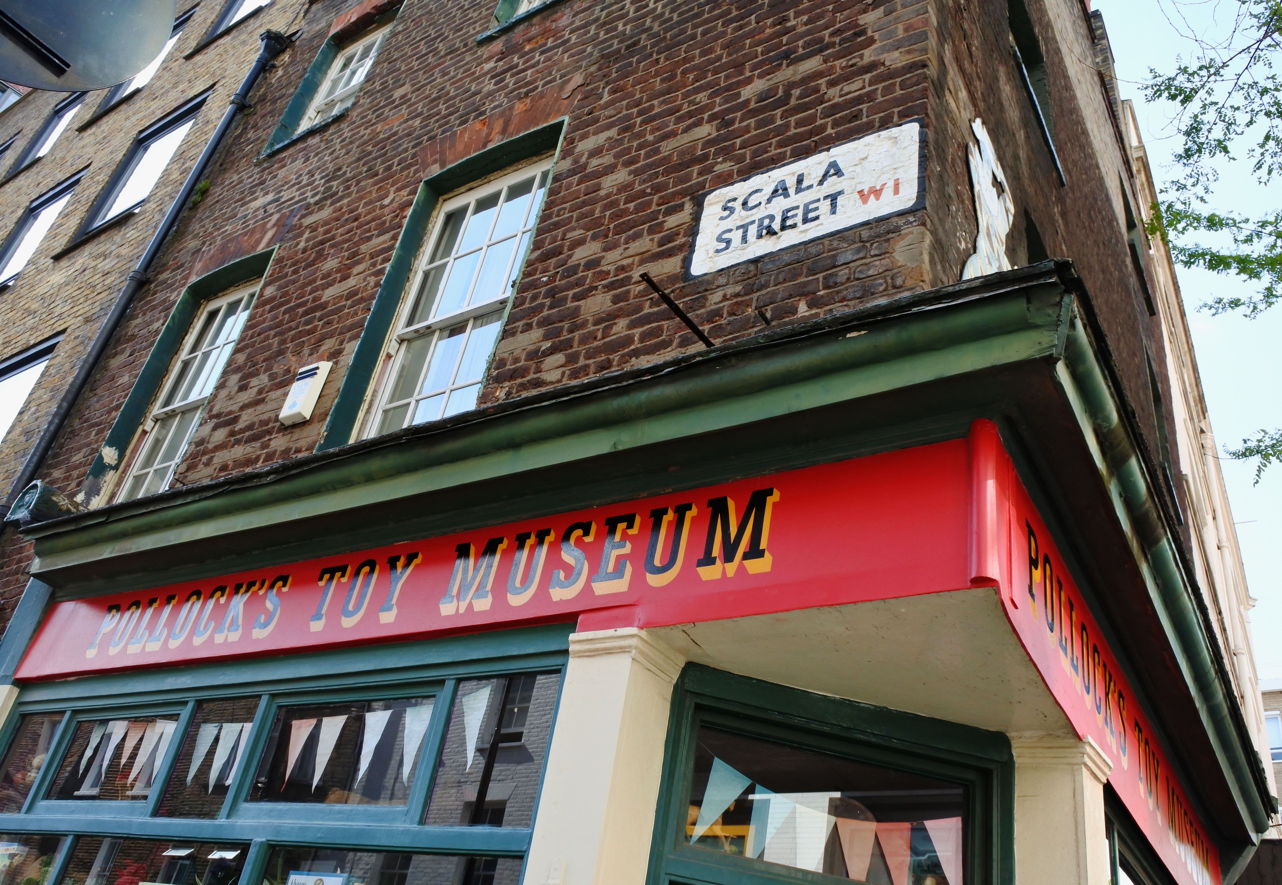 Scala Street, London W1